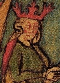 Cropped version of image from the 14th century Icelandic manuscript Flateyjarbók.